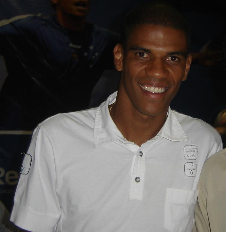 Brazilian football player Leonardo Silva